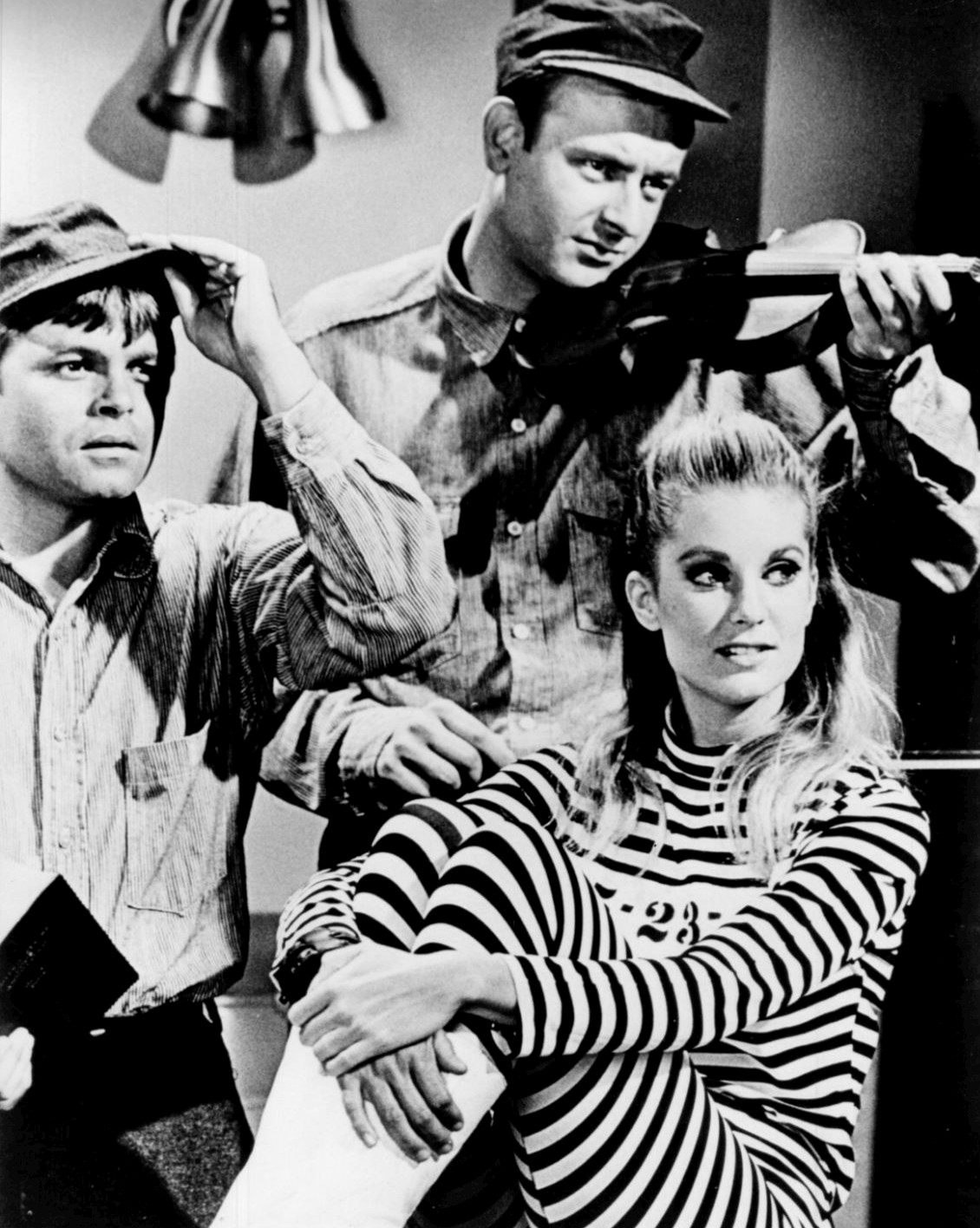 Photo from the television series Batman - Tisha Sterling was the guest star in the episode The Greatest Mother of Them All. Sterling played "Legs", daughter of "Ma Parker" (Shelley Winters). Also in photo are (L-R) Robert Biheller and Peter Brooks.